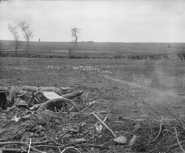 An 18 pounder gun of an Australian battery in its sandbagged gun pit at Noreuil Valley, during the fight for Bullecourt in May 1917. Note that the gun is in full recoil after firing. Place made: France: Picardie, Somme Noreuil Comment : This was part of the Second Battle of Bullecourt.